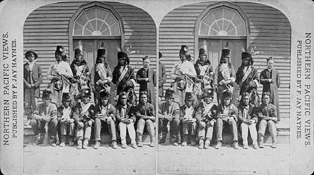 Miskwaagamiiwizaga'iganiing (Ogimaag Red Lake Ojibwe Chiefs) ca. 1890